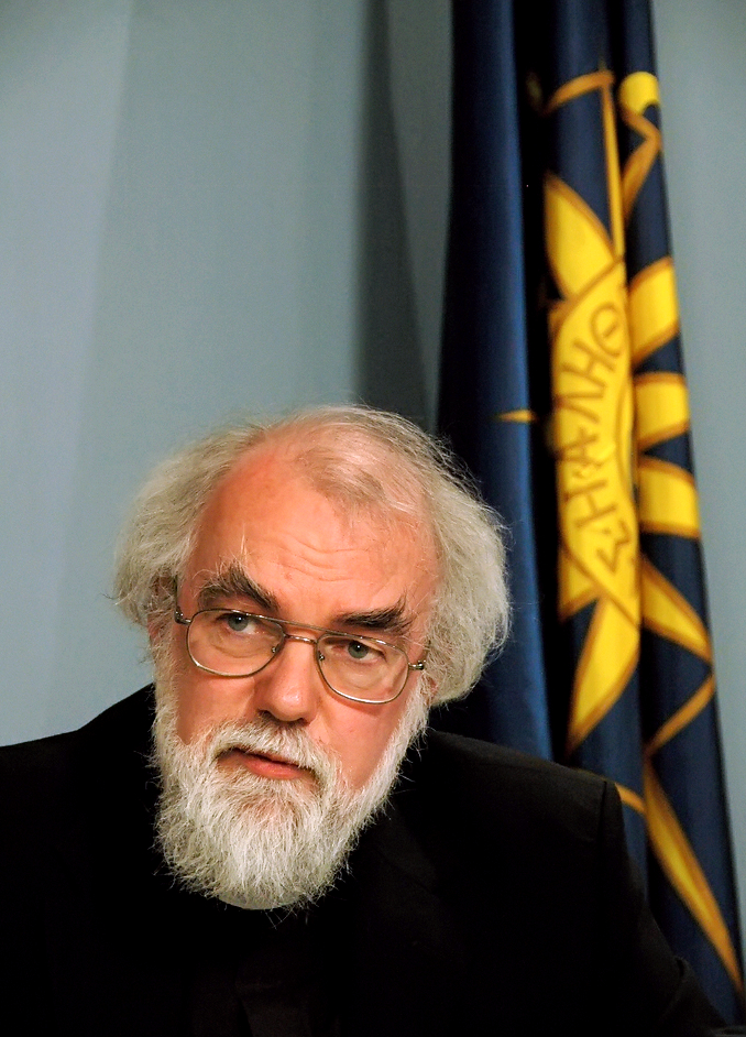 Brian made this picture while Rowan Williams, the Archbishop of Canterbury, visited his work and held a press conference.